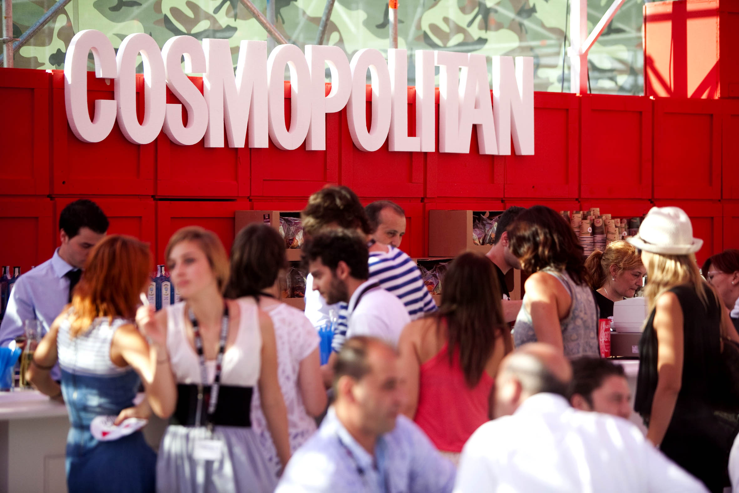 COSMOPOLITAN magazine at The Brandery Summer Edition 2010